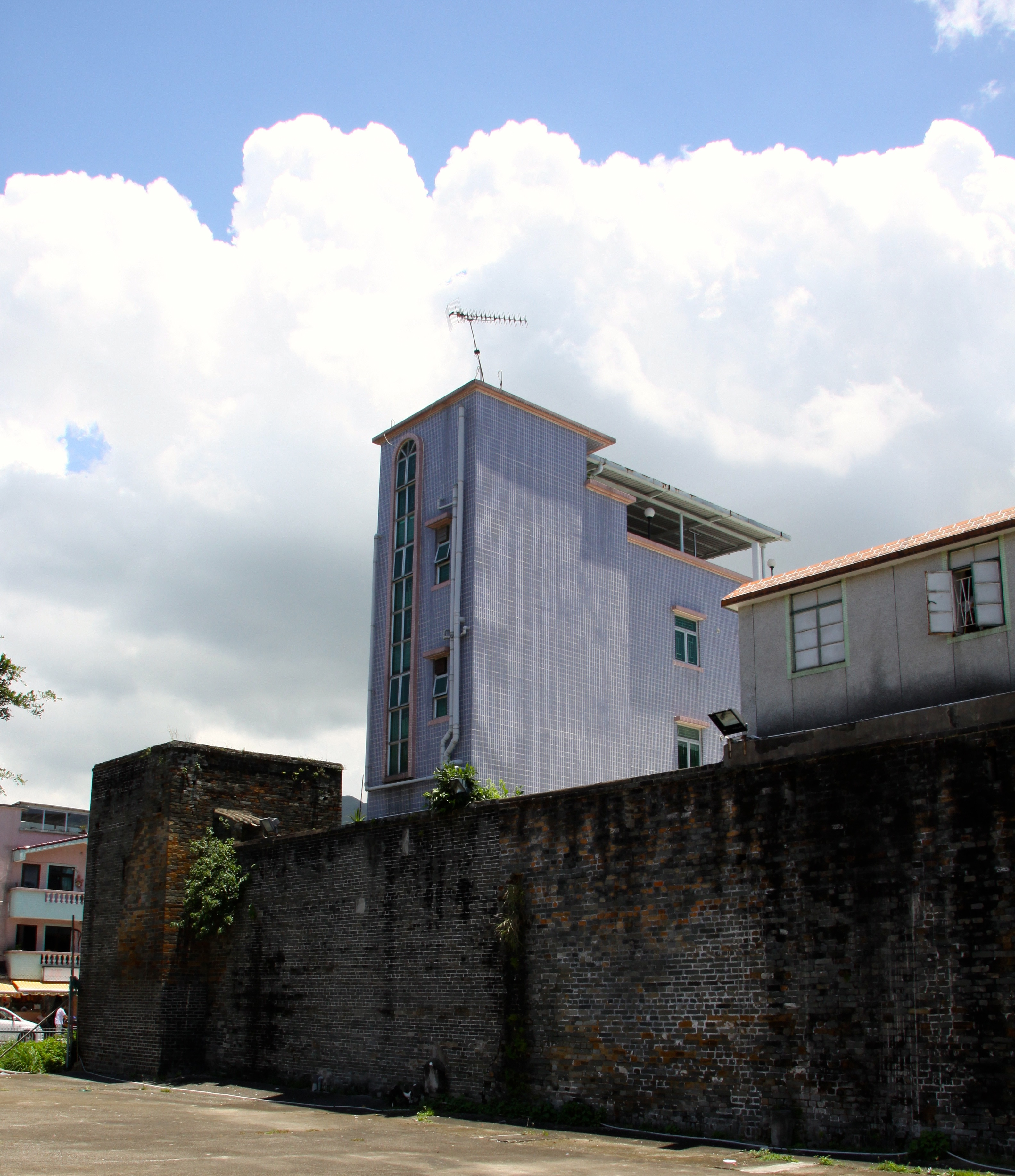 Walls of Kat Hing Wai